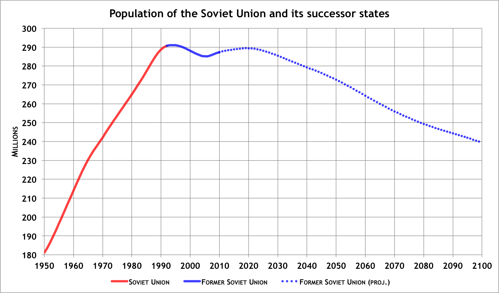 Population of the USSR/former USSR, 1950–2100. Figures from 1950–2100 according to UN's World Population Prospects: The 2012 Revision.